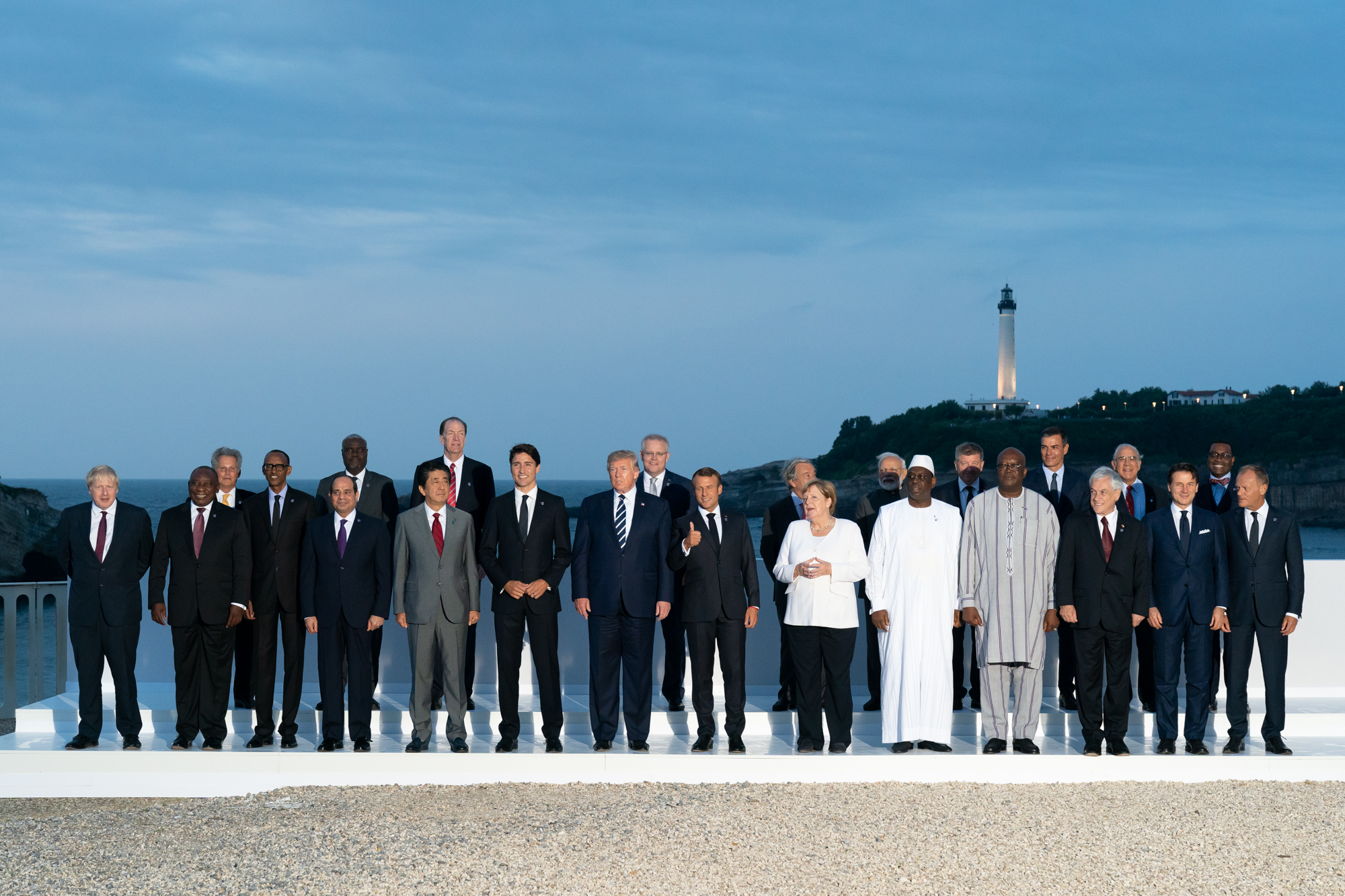 President Donald J. Trump joins the G7 Leadership and Extended G7 members as they pose for the “family photo” at the G7 Extended Partners Program Sunday evening, Aug. 25, 2019, at the Hotel du Palais Biarritz, site of the G7 Summit in Biarritz, France. (Official White House Photo by Andrea Hanks)